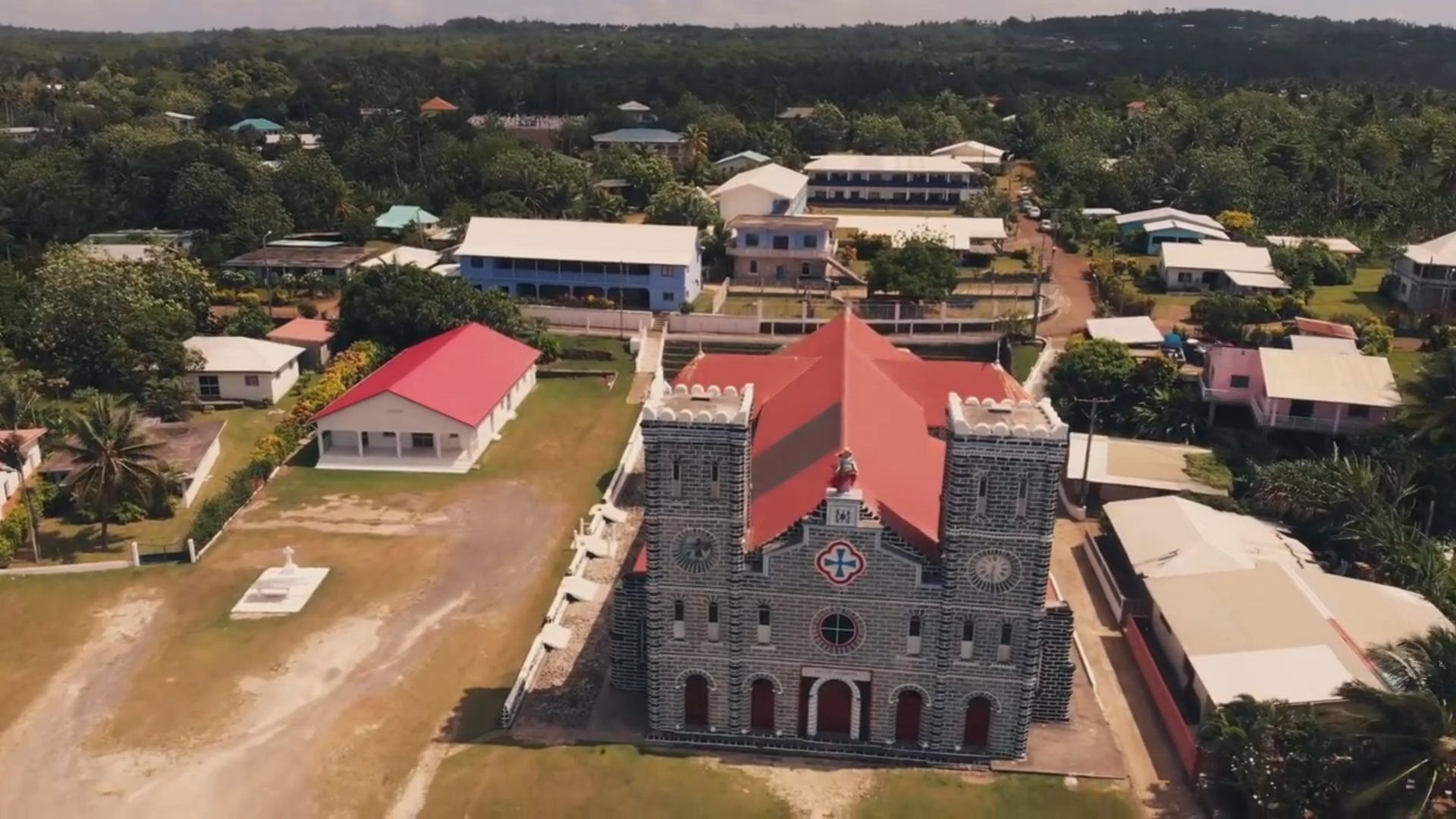 The cathedral of Mata Utu (Wallis island, Wallis and Futuna) seen from a drone, 2018.